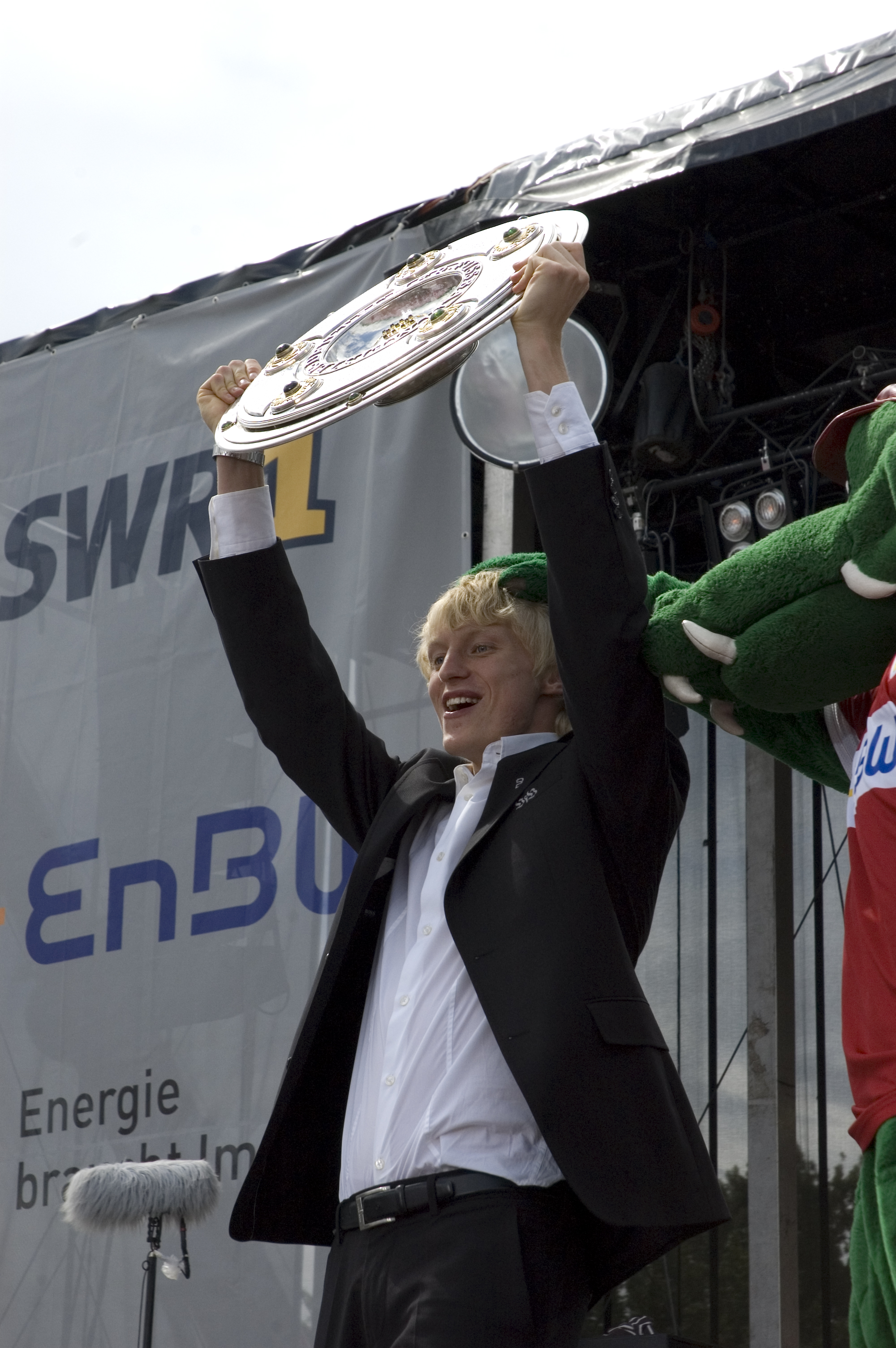 Andreas Beck